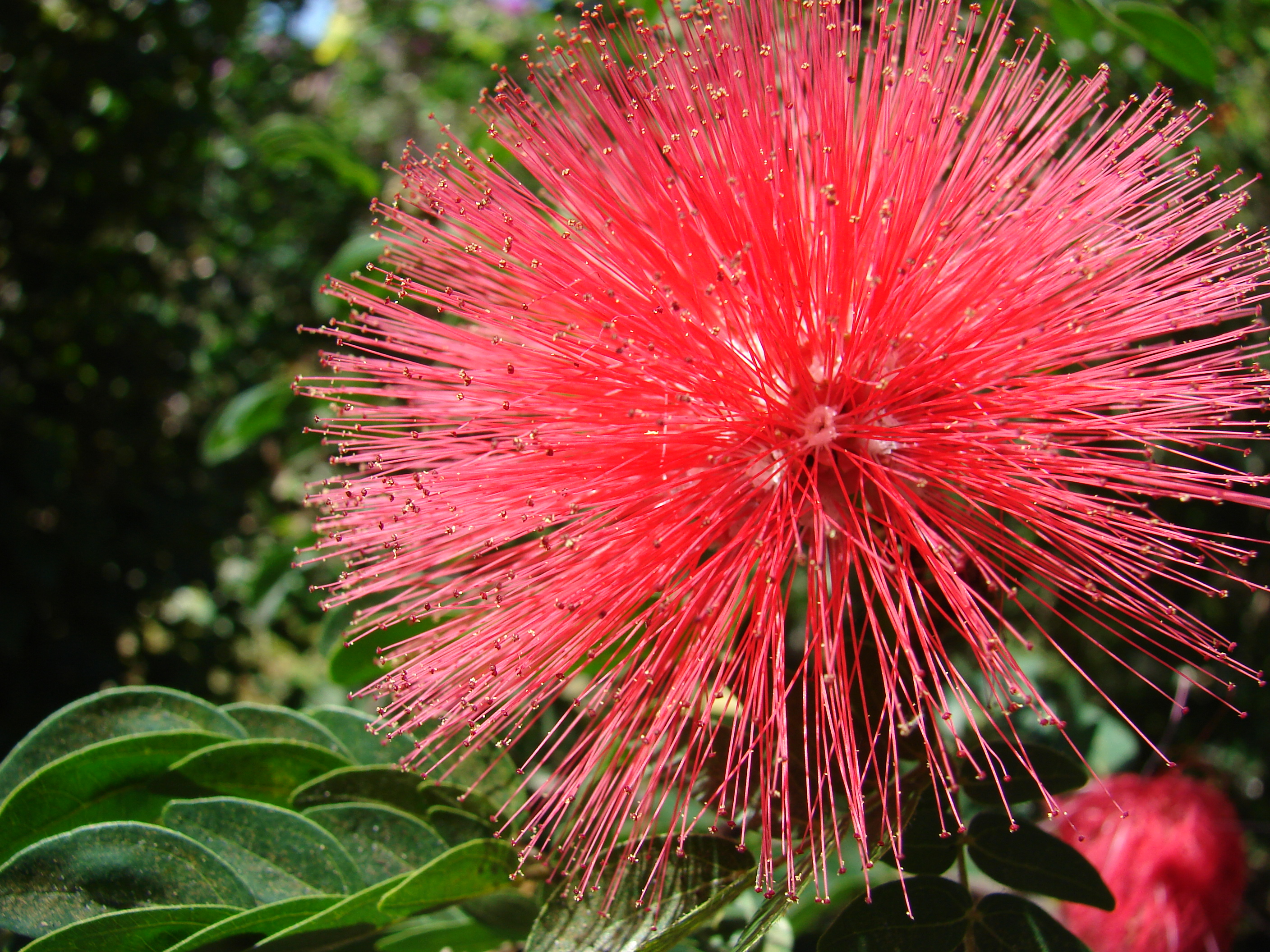 Calliandra haematocephala (flower). Location: Maui, Enchanting Floral Gardens of Kula